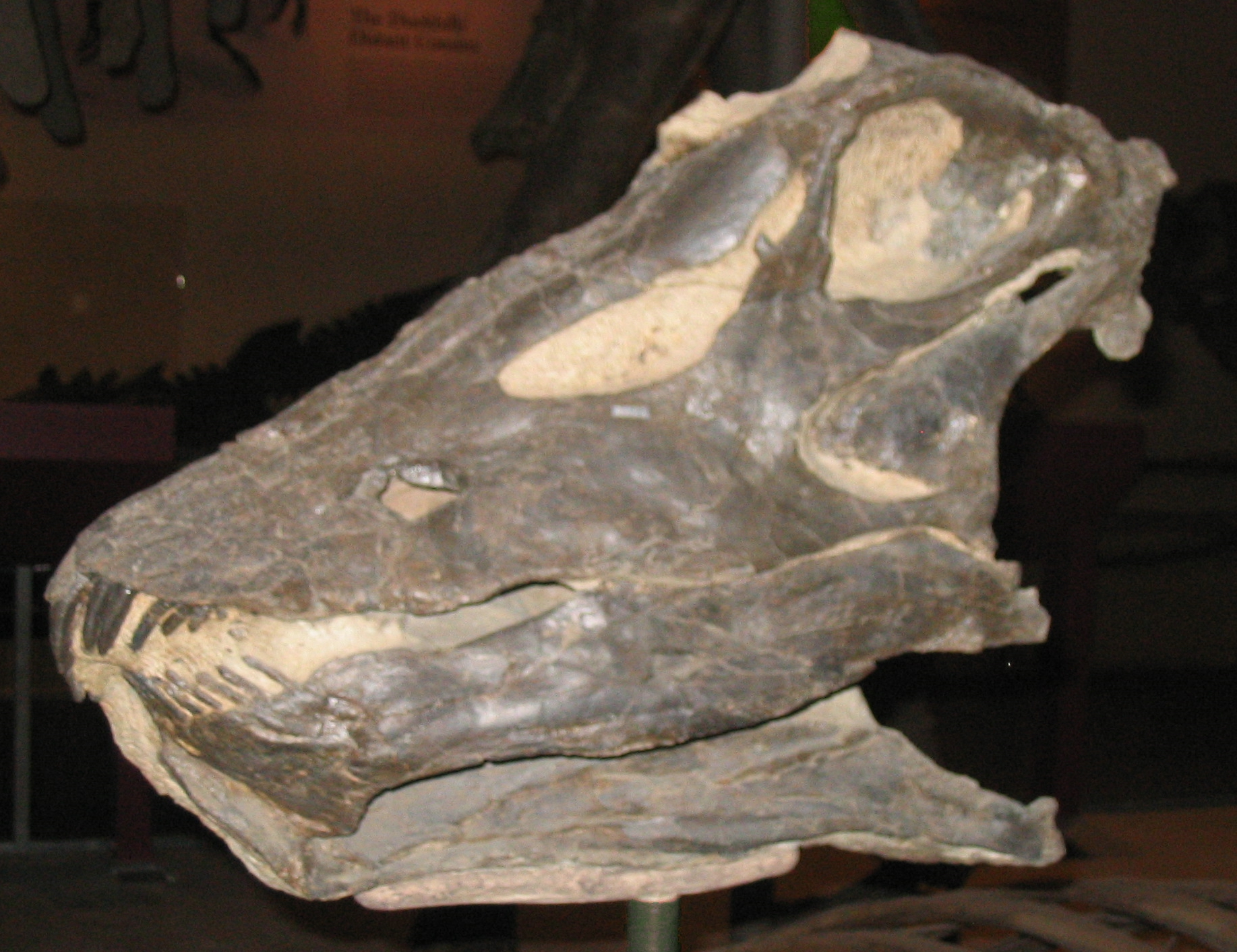 Diplodocus (or Diplodocinae indet.) skull USNM 2672 at the Smithsonian museum of Natural History